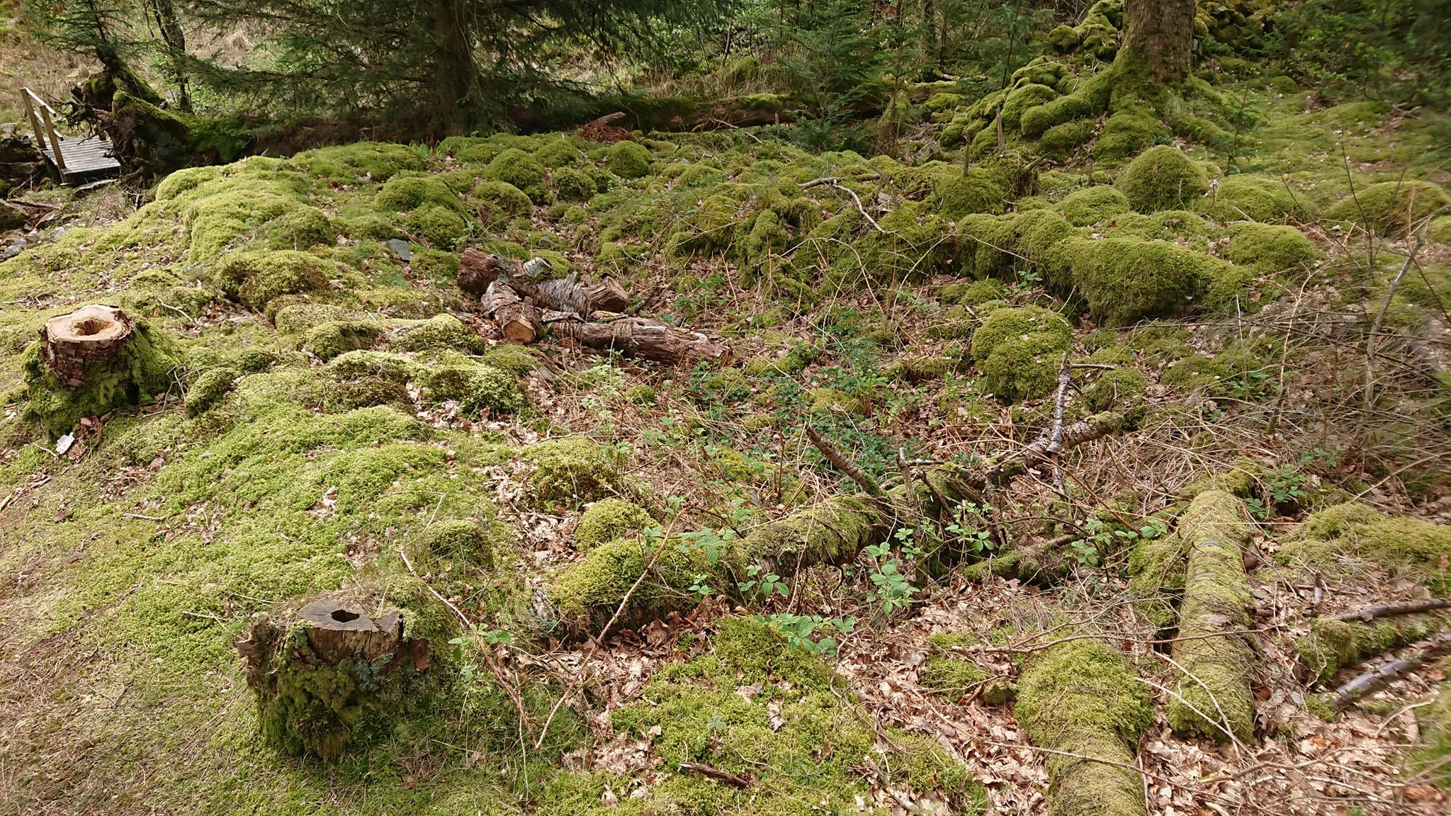 Traces of the former settlement of Armboth can be found in the vicinity.